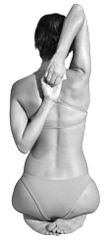 Rája Gomukásana